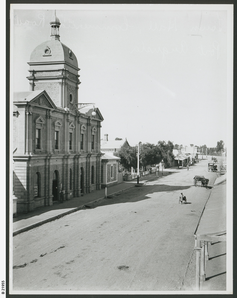 Summary description used on source website - "Town Hall is located on Commercial Road, Port Augusta." Source webpage